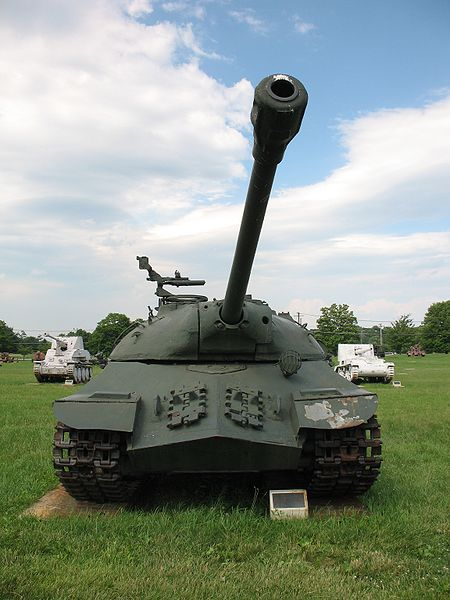 An IS-3 tank from the frontal view.